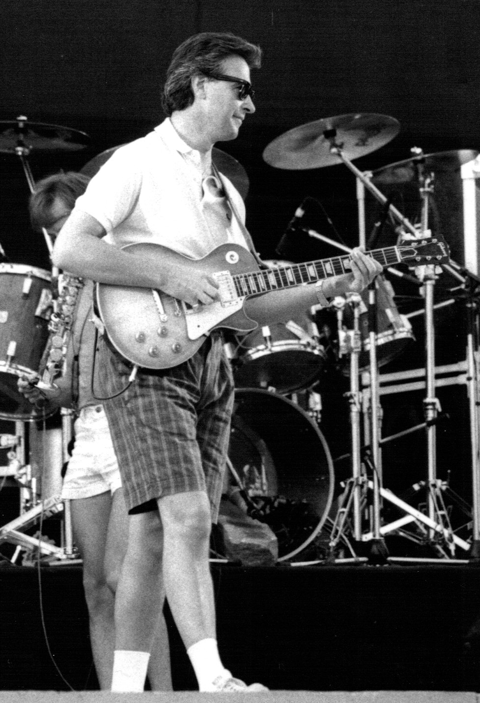 A very flattering picture of John McLaughlin